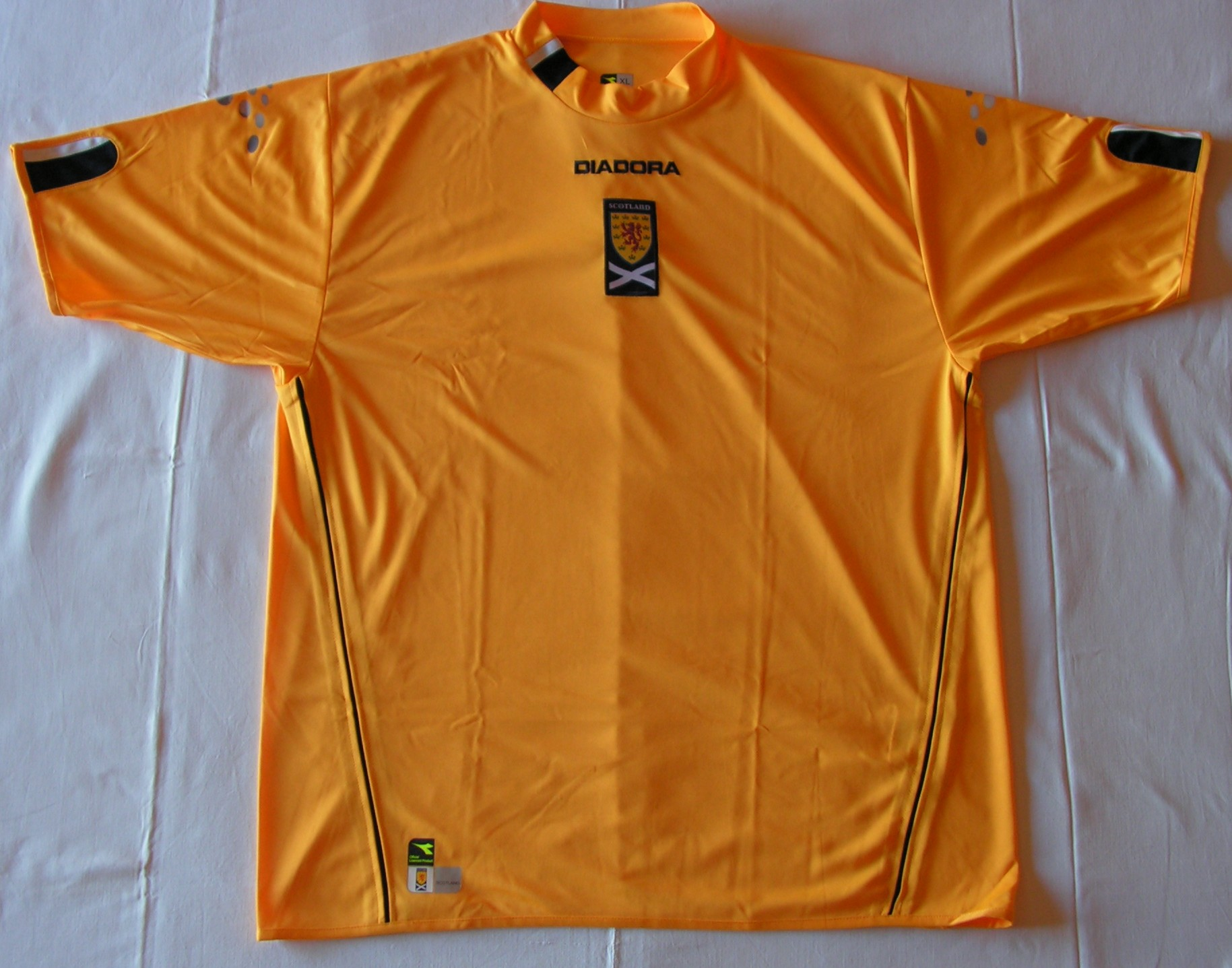 Scotland Football team third jersey 2004